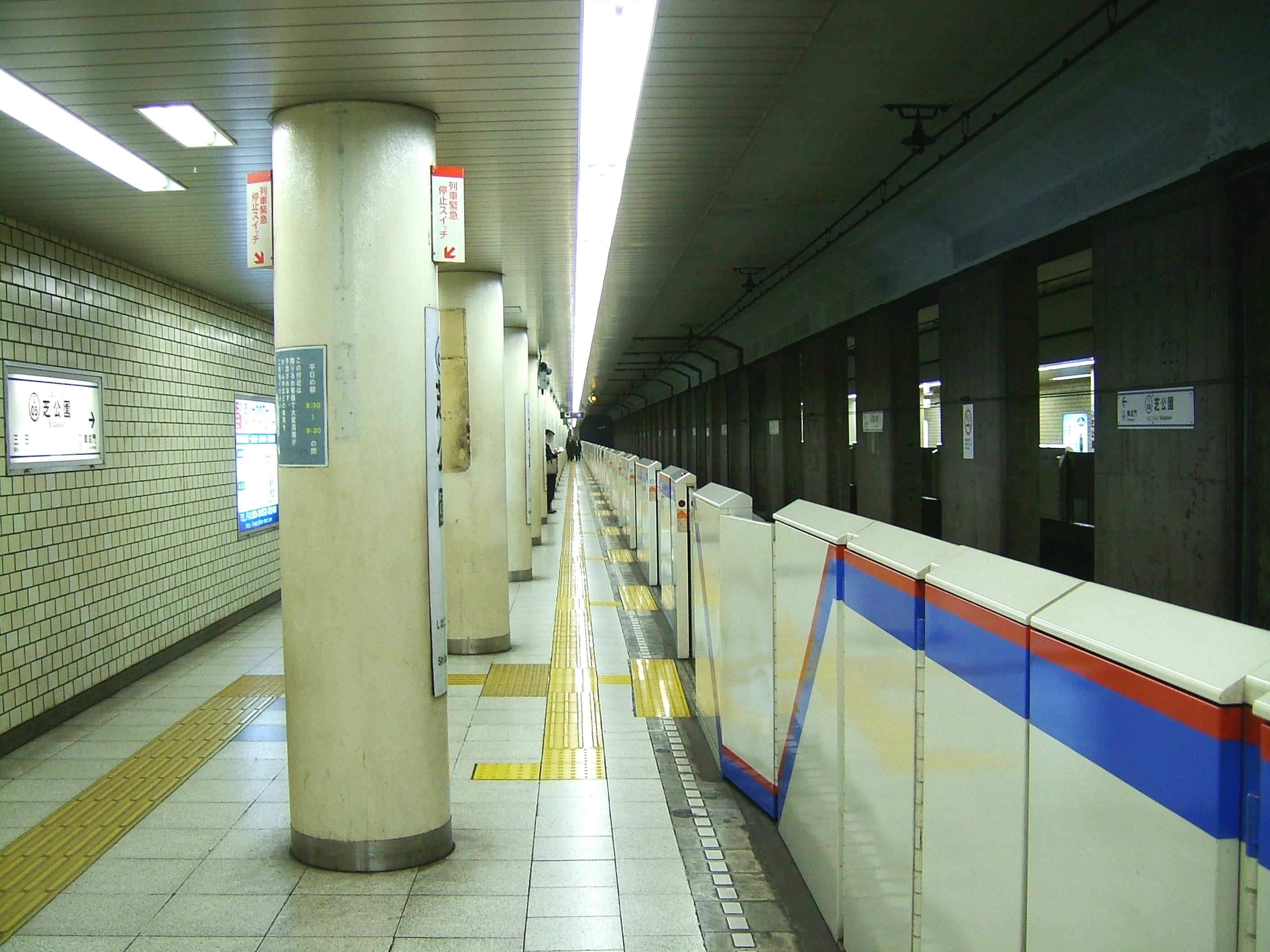 The platforms at Shibakōen Station on the Toei Mita Line in Minato city, Tokyo, Japan